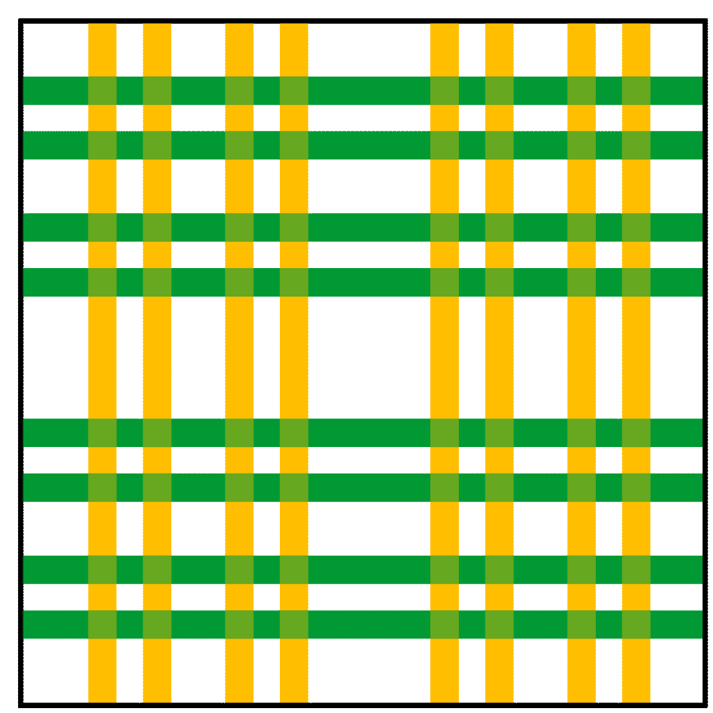 Approximation of the invariant set of the Horseshoe map. The squares at the intersection of the green stripes and the orange stripes provide a cover to the invariant set of the Smale horseshoe map. Image programmed in Postscript and rendered in Adobe Illustrator.